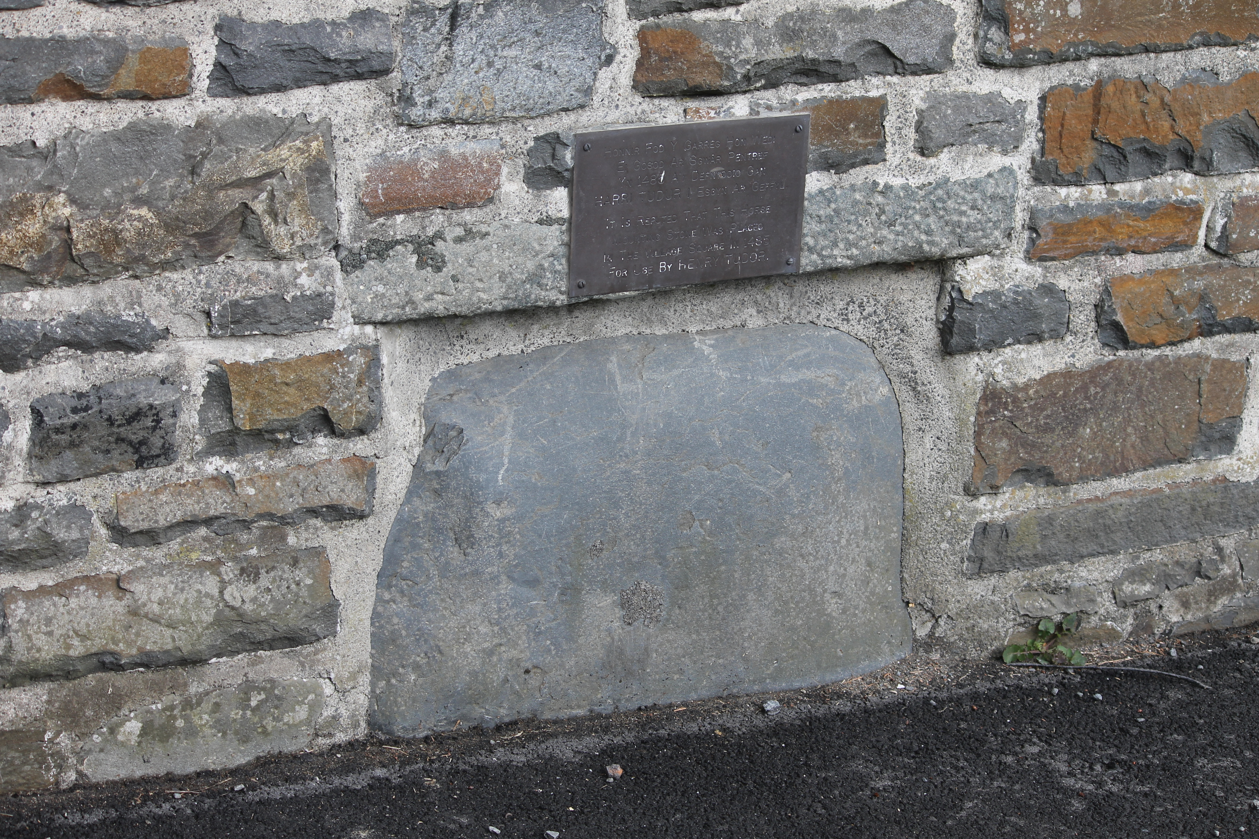 The Church o St Ilar ('st ilar'; old inncorrect name, kept only as historic record is St Hilary's Church). Grade II* listed building. Stone used by Henry Tudor to mount his horse.